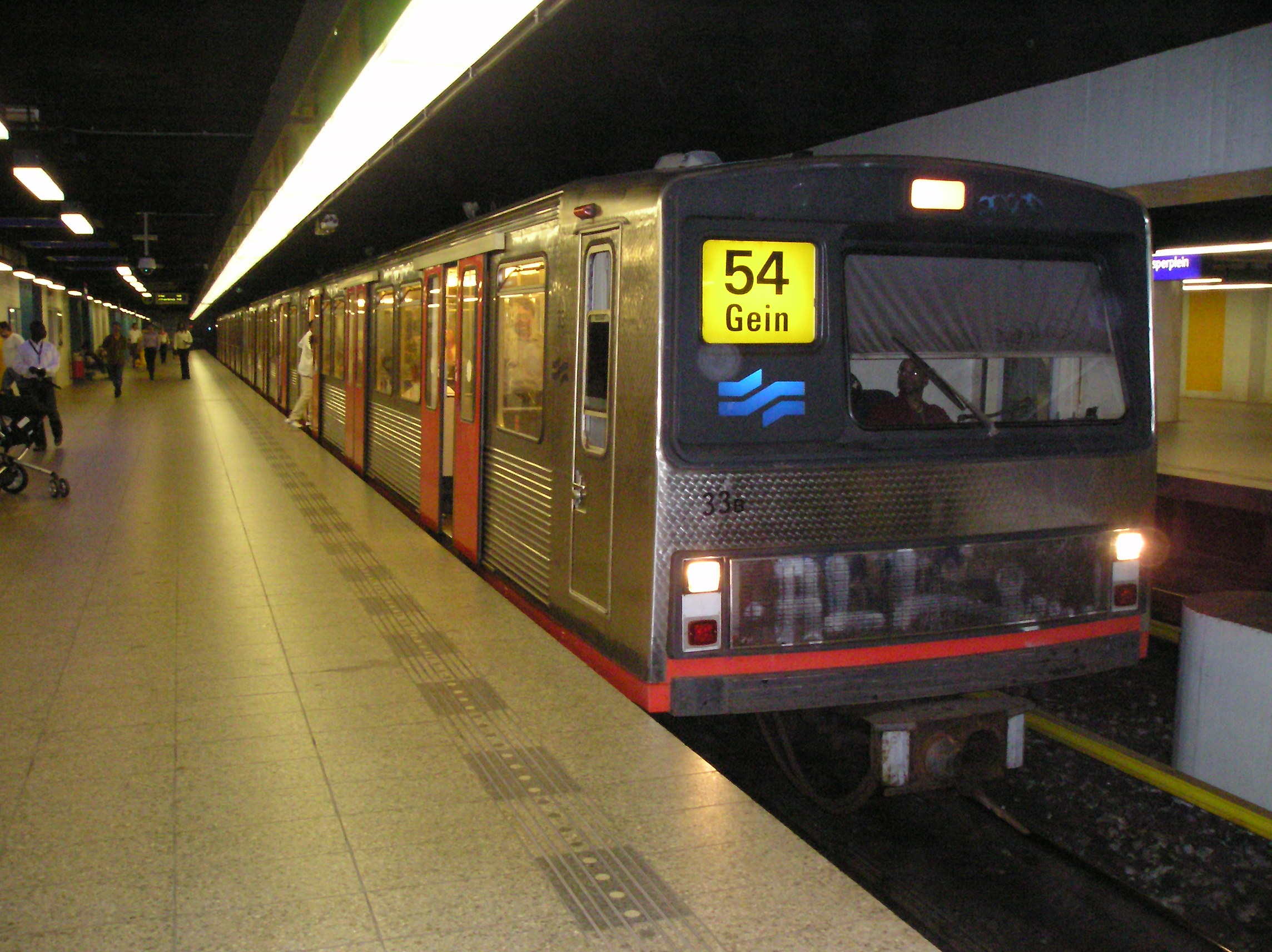 Type LHB train of Amsterdam metro.